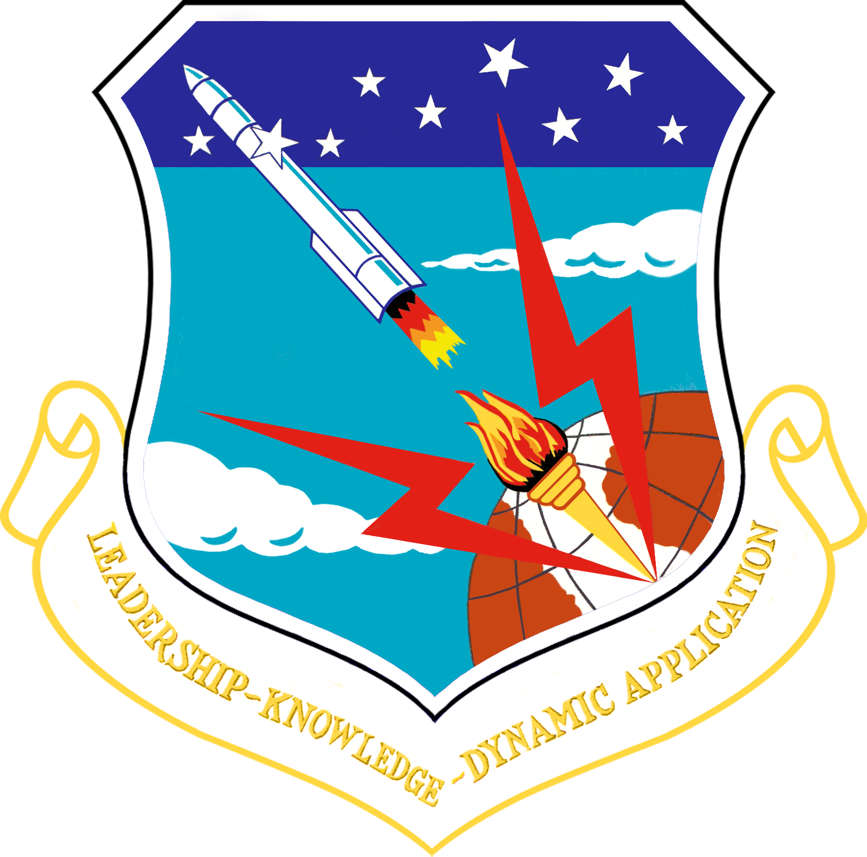 704th Strategic Missile Wing